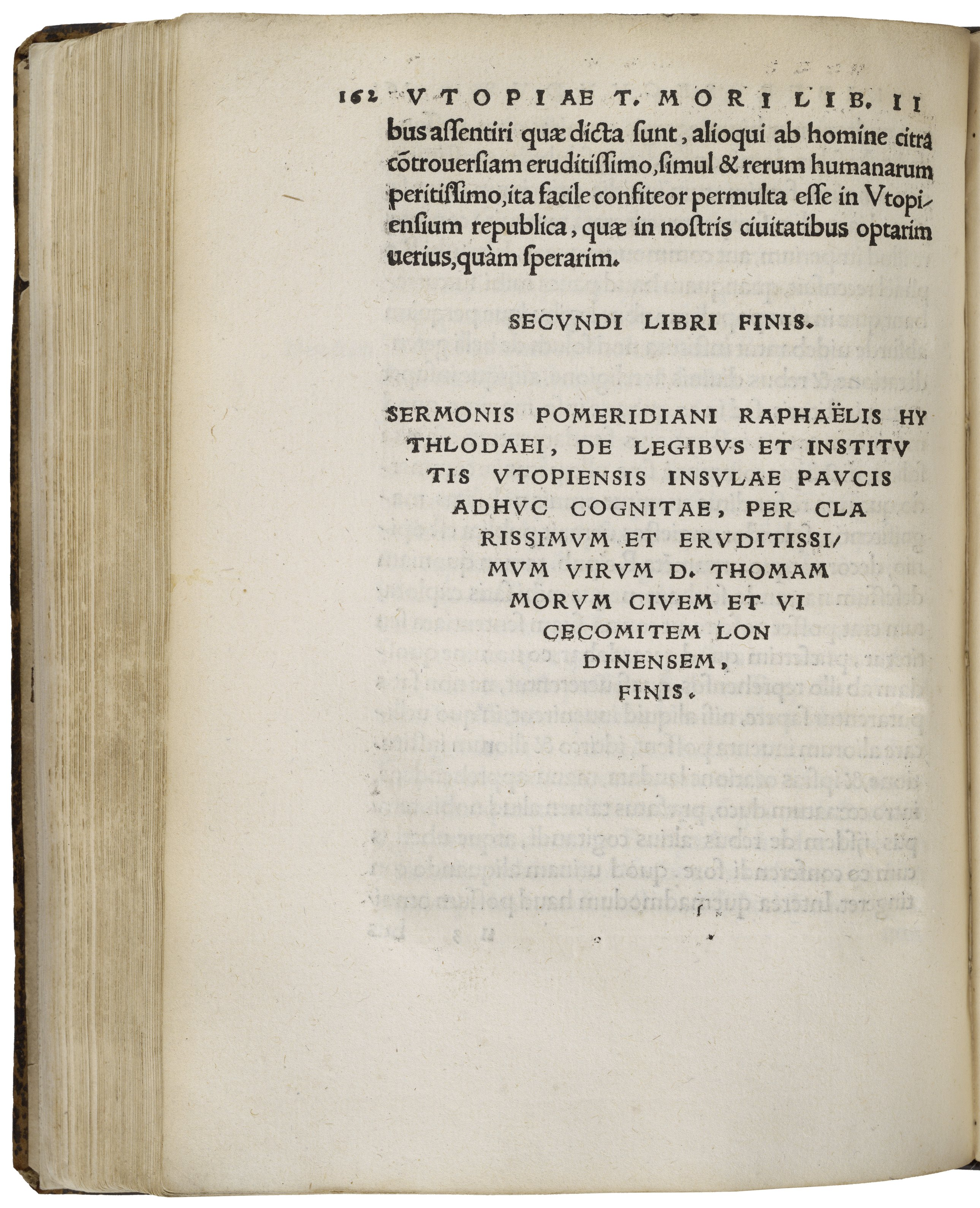 This is the page 162 of Thomas More's Utopia, the last page of Book 2 (november 1518)